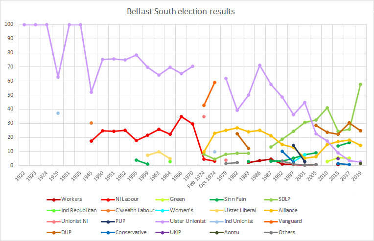 Belfast South election results